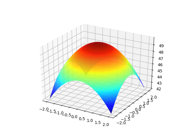 Paraboloid surface (Transparent colour)